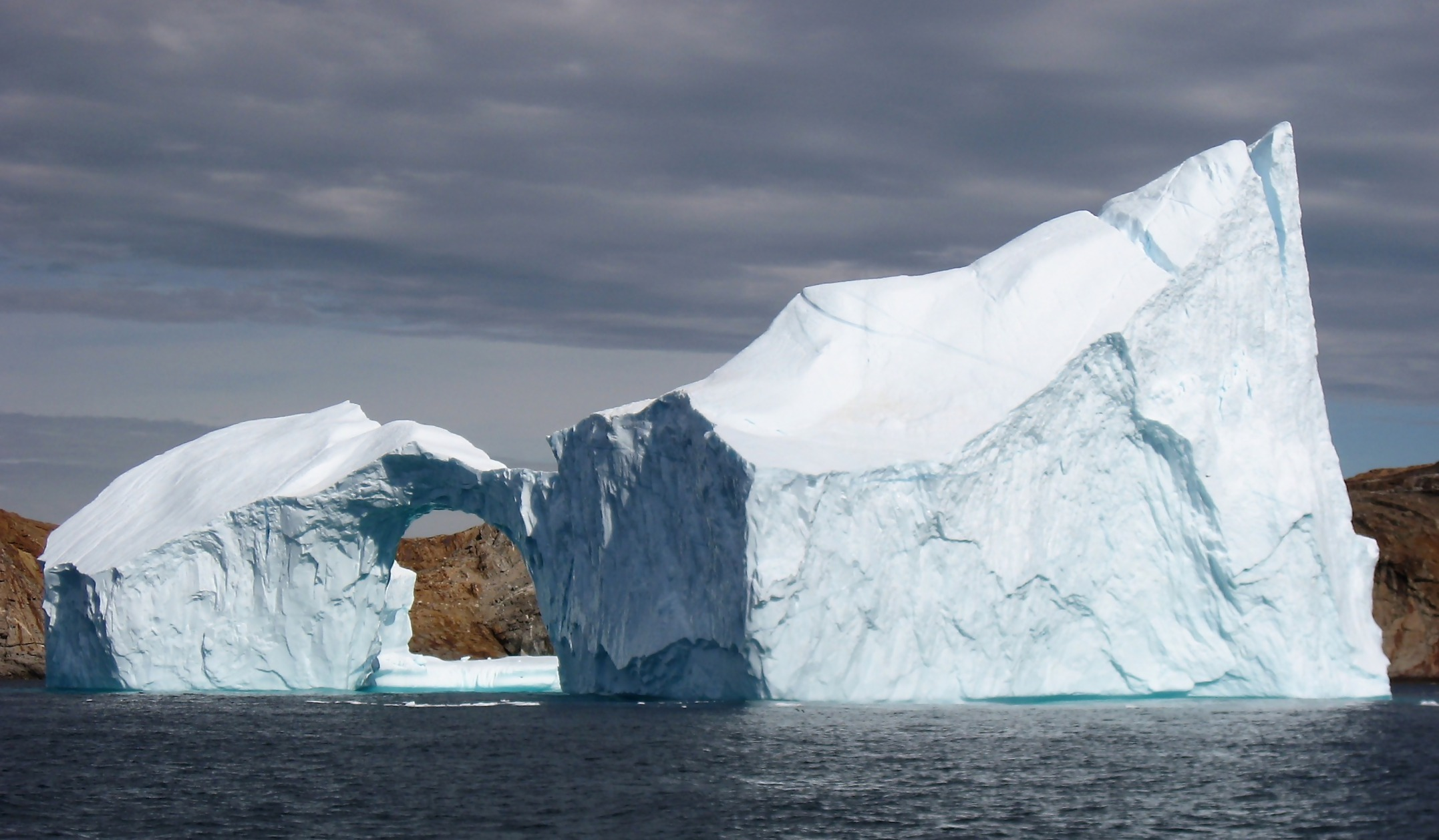 Iceberg with a hole in the strait between Langø and Sanderson Hope south of Upernavik, Greenland.